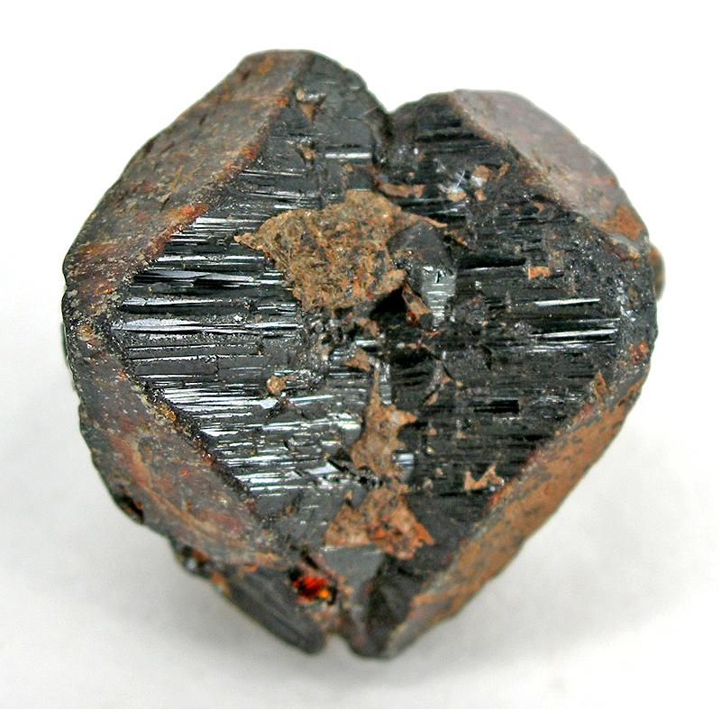 Cassiterite Locality: Ehrenfriedersdorf, Erzgebirge, Saxony, Germany (Locality at ) Size: thumbnail, 2.9 x 2.8 x 1.8 cm Cassiterite A sharp cassiterite twin. Exceptional and large for locality. Clearly old classic, from the 1800s. Ex. Richard Hauck Collection.